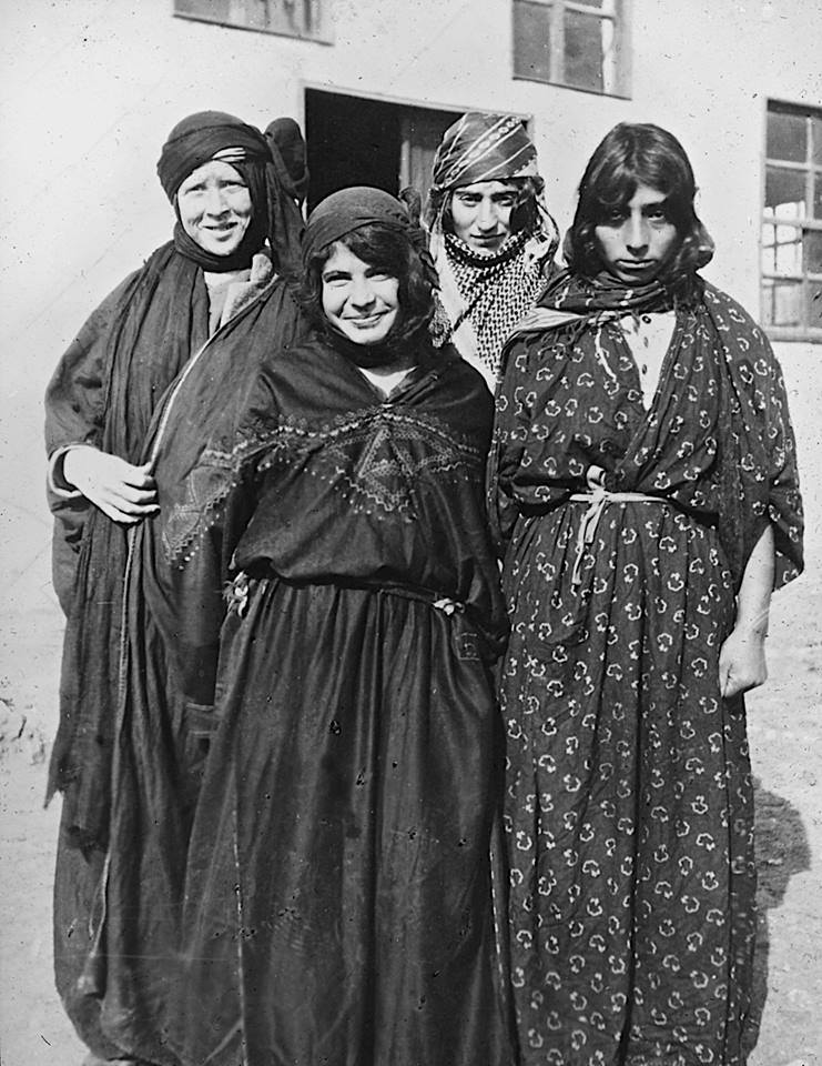 Four Armenian women who have arrived to the rescue home after having been in slavery. Between 1921 and 1928. (Karen Jeppe's glass plates, the archive in Gylling) via Mogens Højmark.